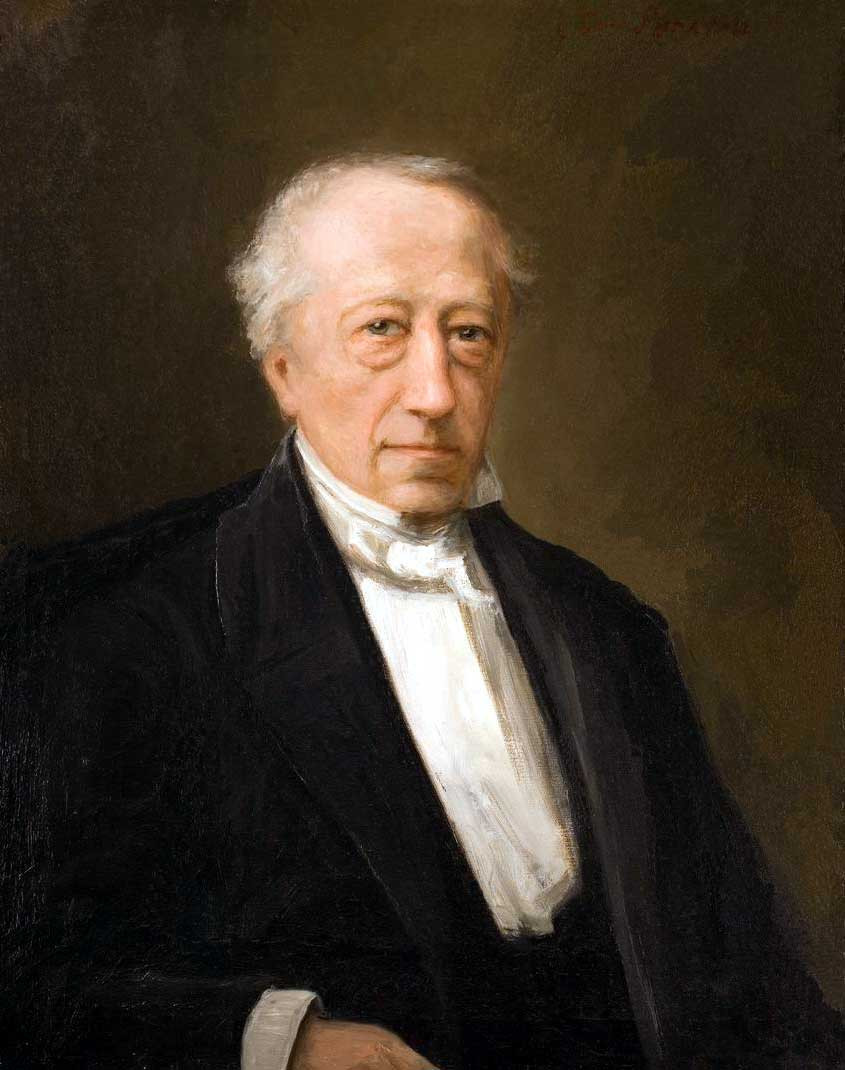 Cornelis Pruijs van der Hoeven (1792-1871), professor medicine at Leiden University